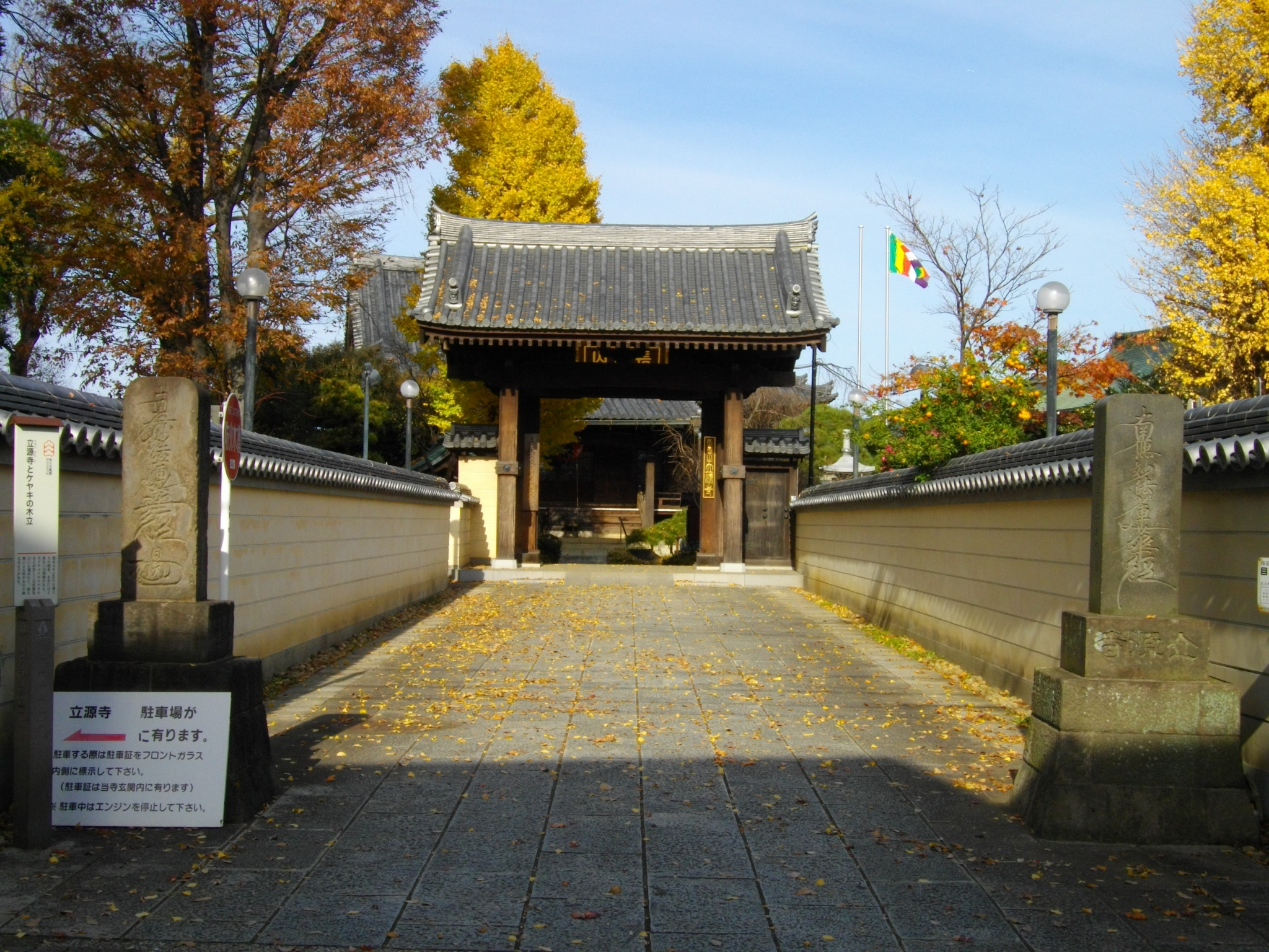 Ryugen-ji (Meguro)